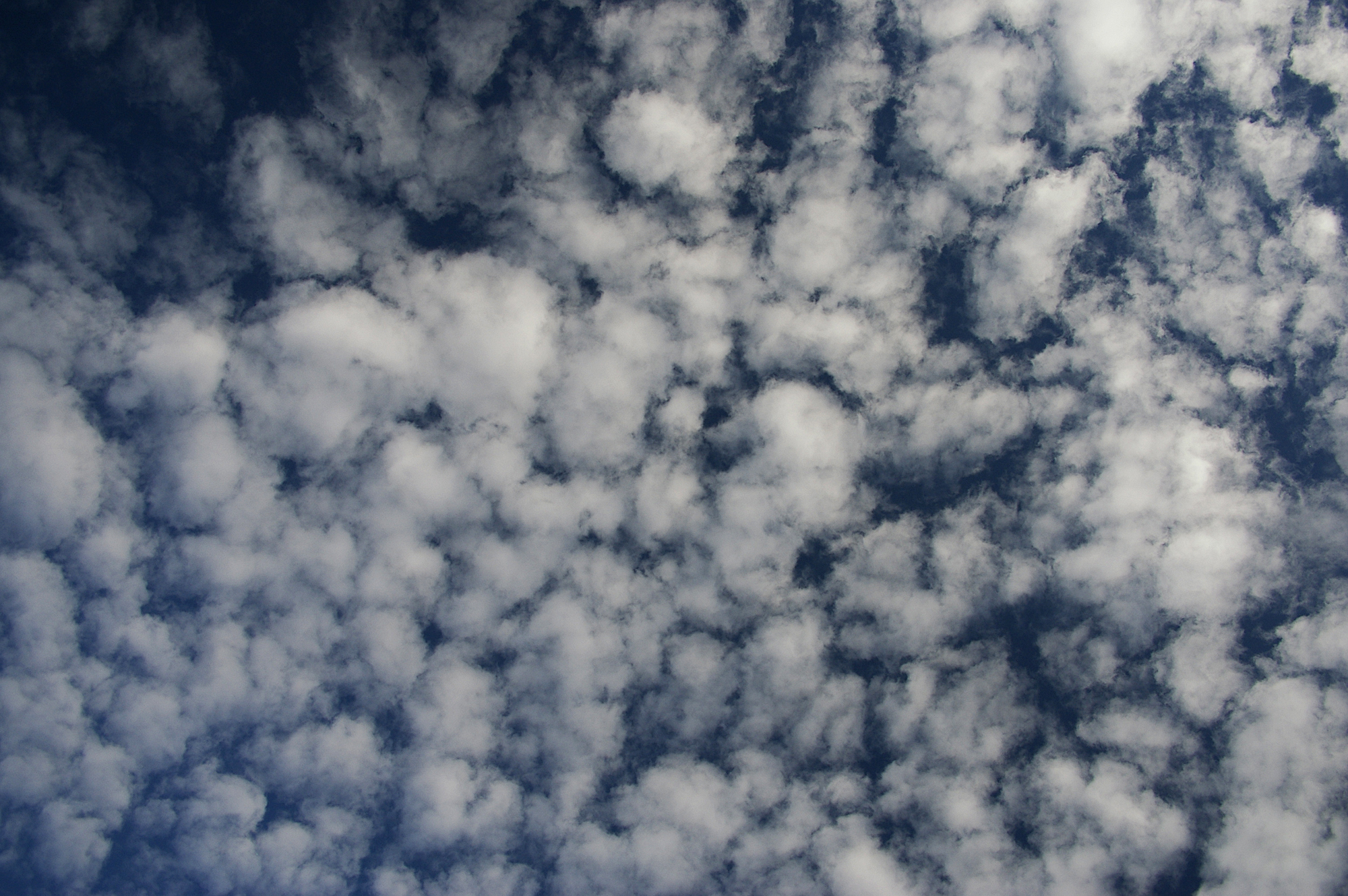 Altocumulus photographed in Wagga Wagga, New South Wales, Australia. Because this photograph concerns privacy since this was taken on a private property, only an approximate location is provided: Wagga Wagga, New South Wales, Australia